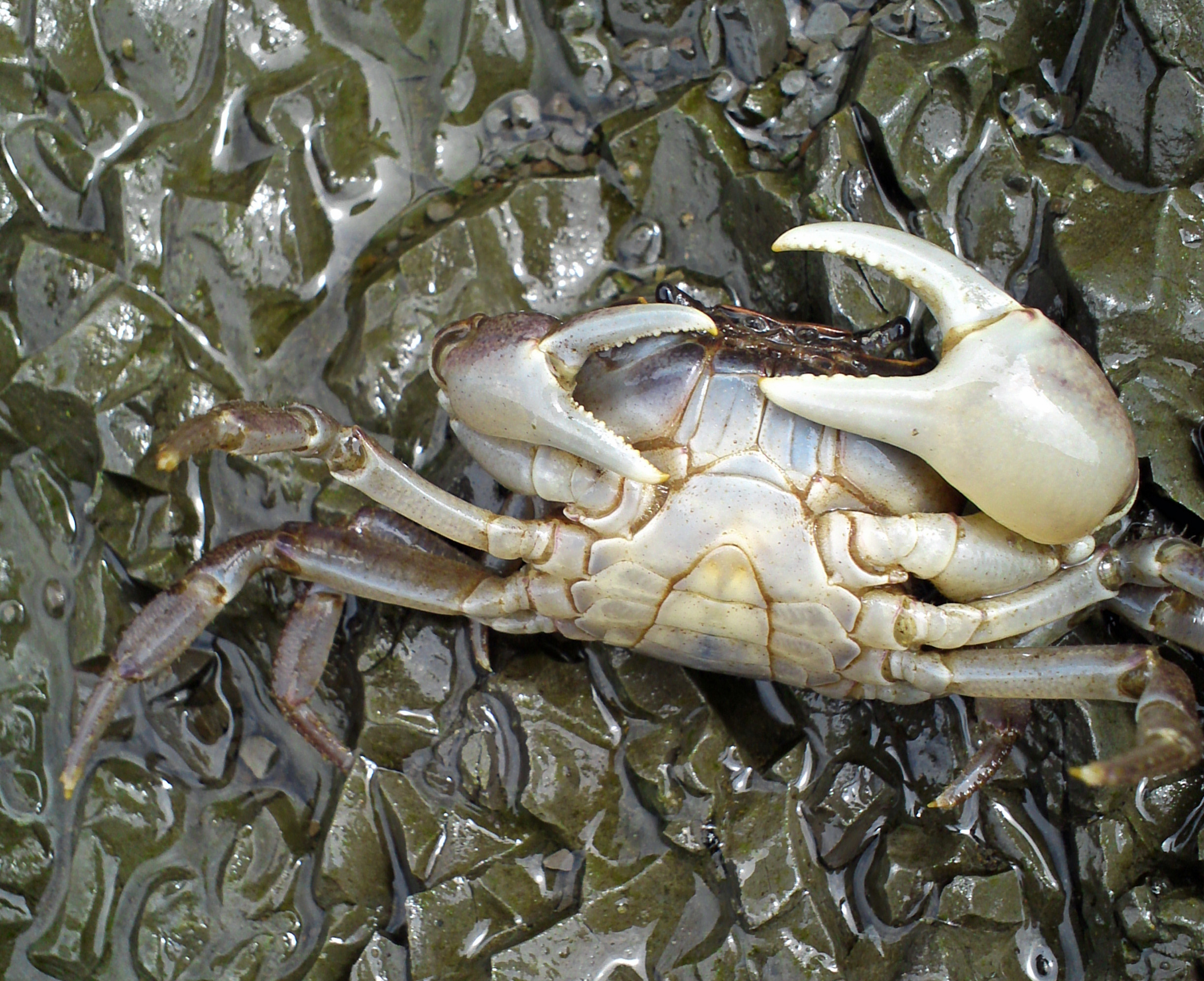 Geothelphusa dehaani A freshwater crab. (Capture place, the Nagano Kangawa River)